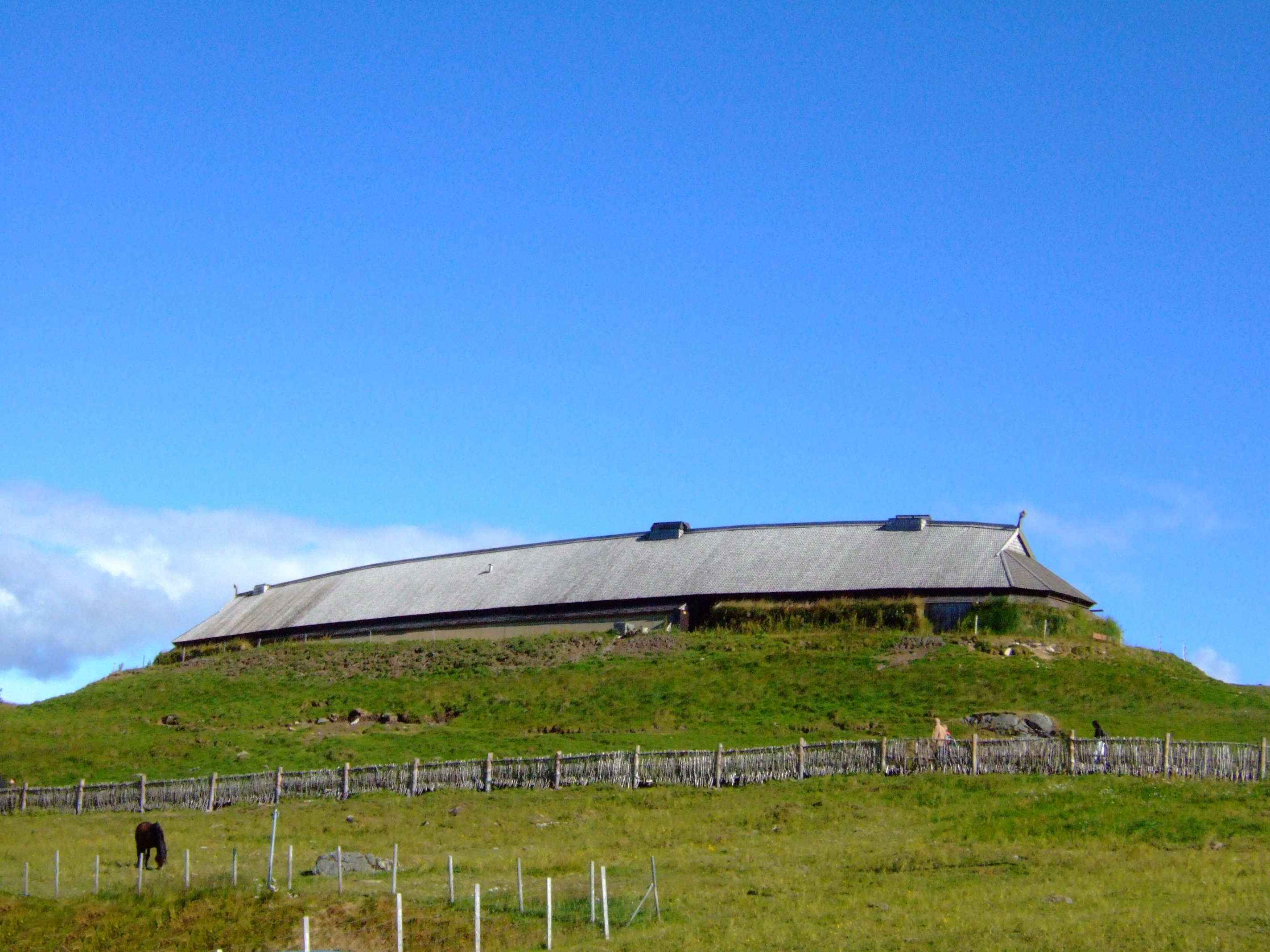 Chieftains house